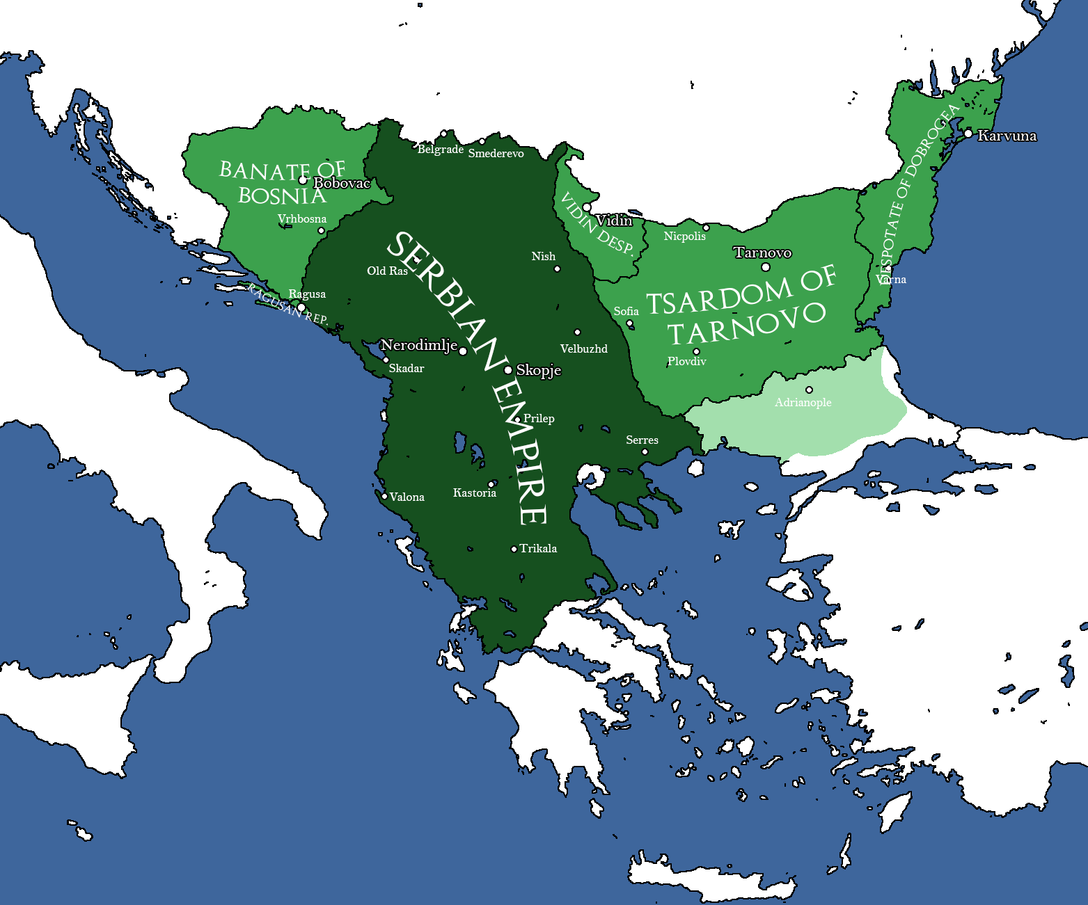 Map of the Serbian empire at its height.